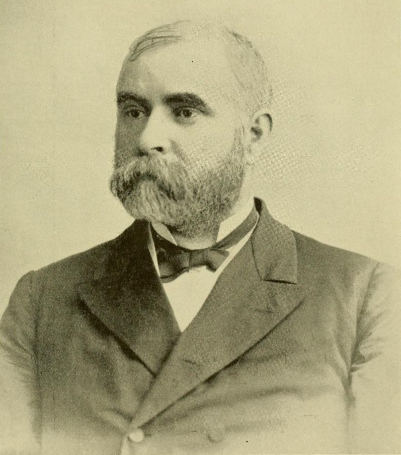 Edwin S. Osborne (Pennsylvania Congressman)